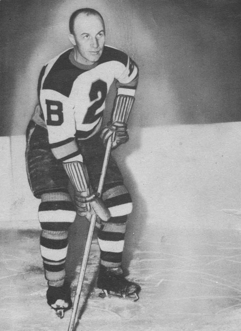 Ice hockey player Eddie Shore at the final years of his career with the Boston Bruins.